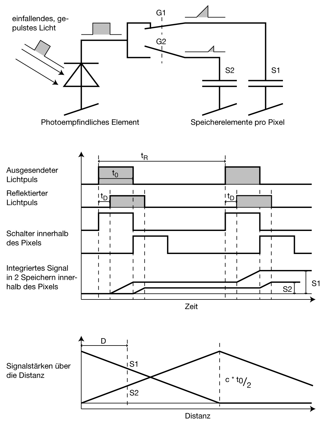 Principle of TOF-cameras